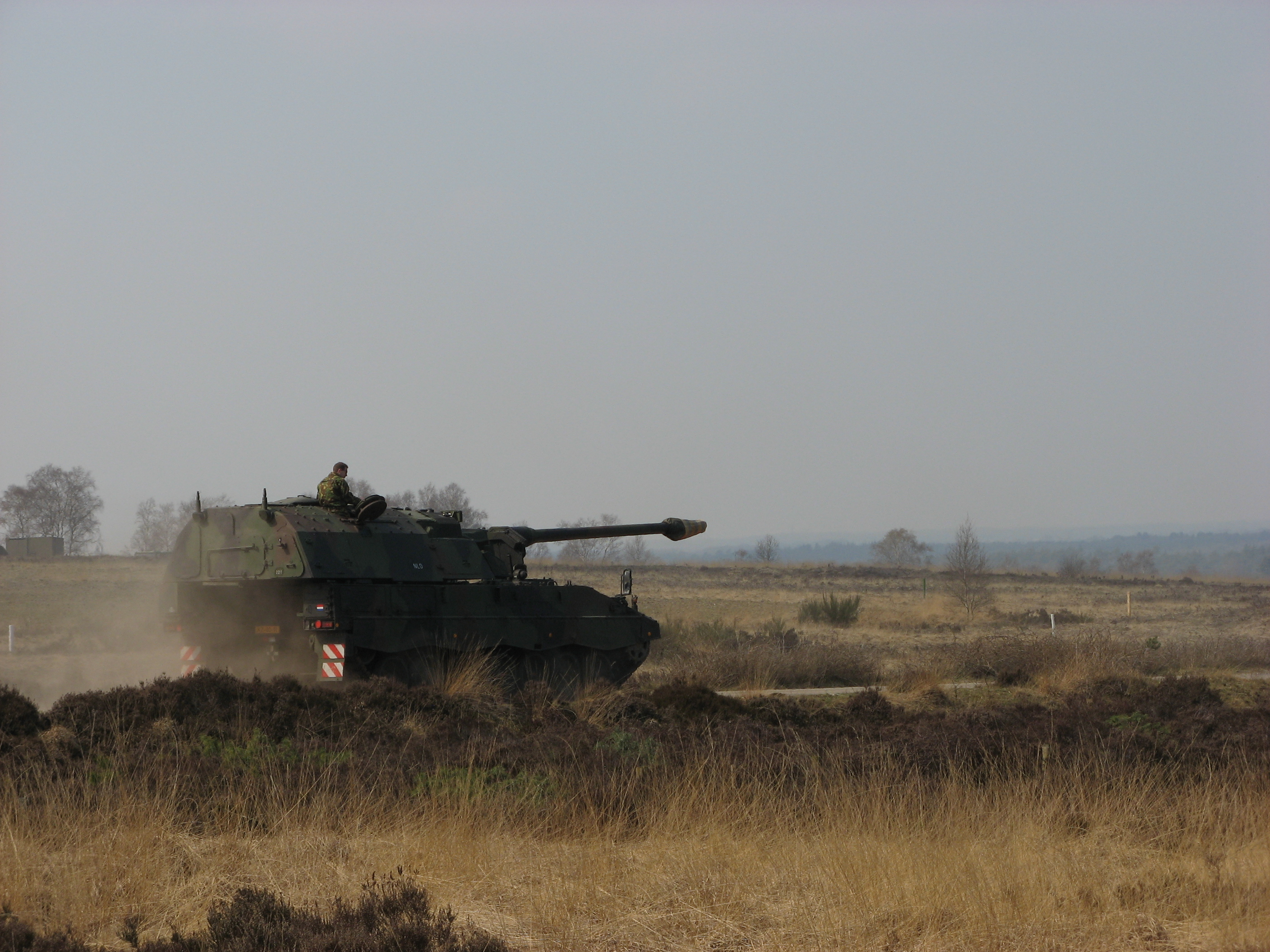 Panzerhaubitze 2000 of the Royal Dutch Army on 't Harde.